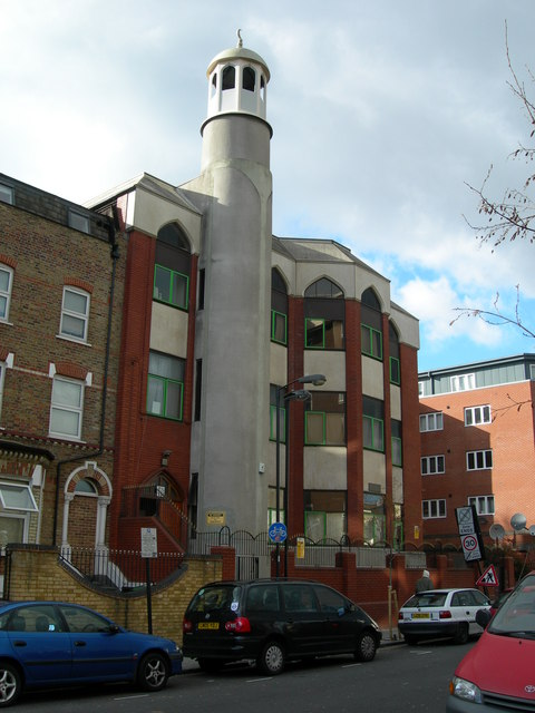 North London Central Mosque, Finsbury Park. This was once called the Finsbury Park Mosque, but in February 2005 the mosque was renamed as the North London Central Mosque. Since then it has been under the control of mainstream Muslims and is now a valuable community resource. But during the late 1990s it fell into the control of radical clerics and was strongly associated with terrorist and other criminal activities. The renaming was intended to distance the Mosque from its past. Read more here: Finsbury_Park_mosque